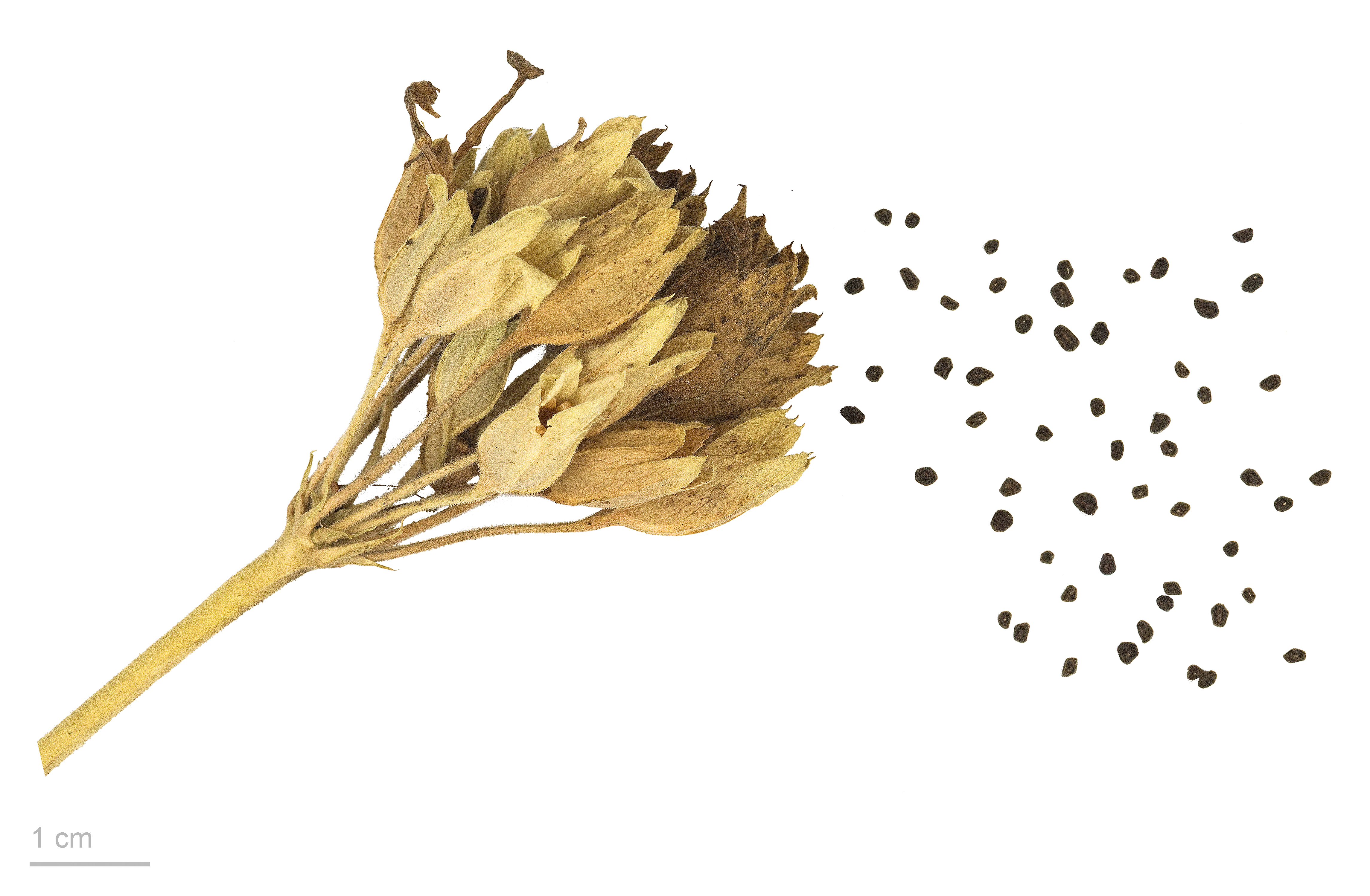 cowslip , fruits and seeds